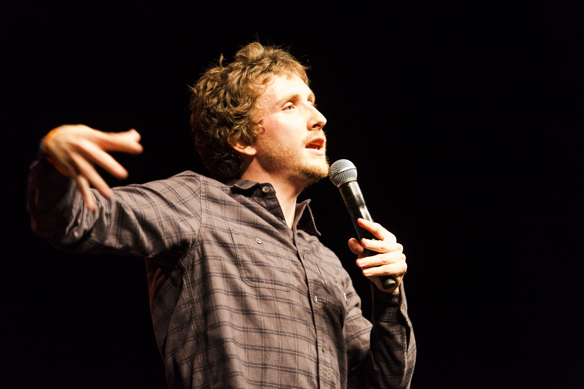 Festival Onze Bouge 2014 (Paris), Théâtre Le Temple